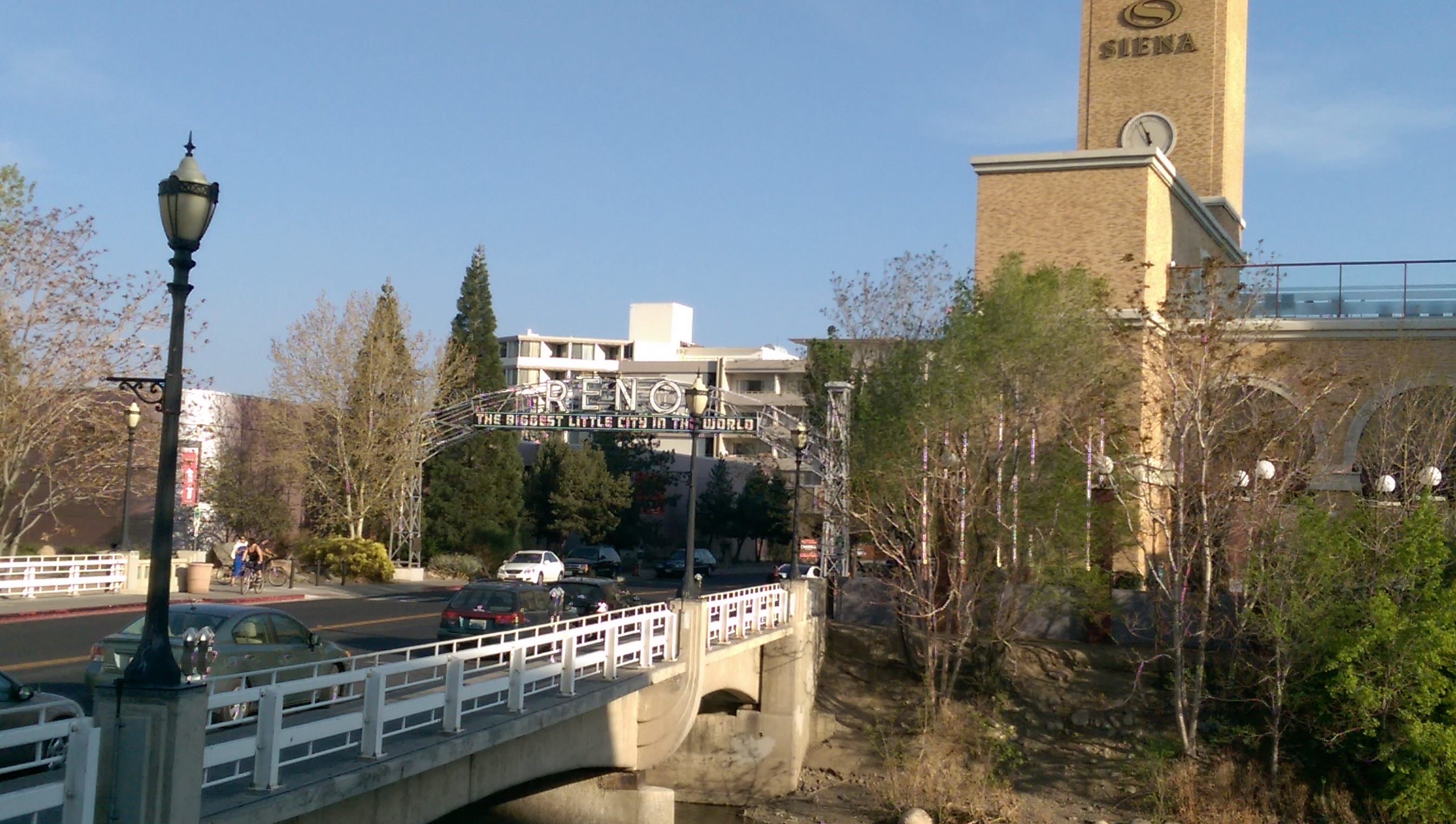 This is the first generation of the Reno Arch, relocated to Lake Street after the 2nd and 3rd iterations were installed.